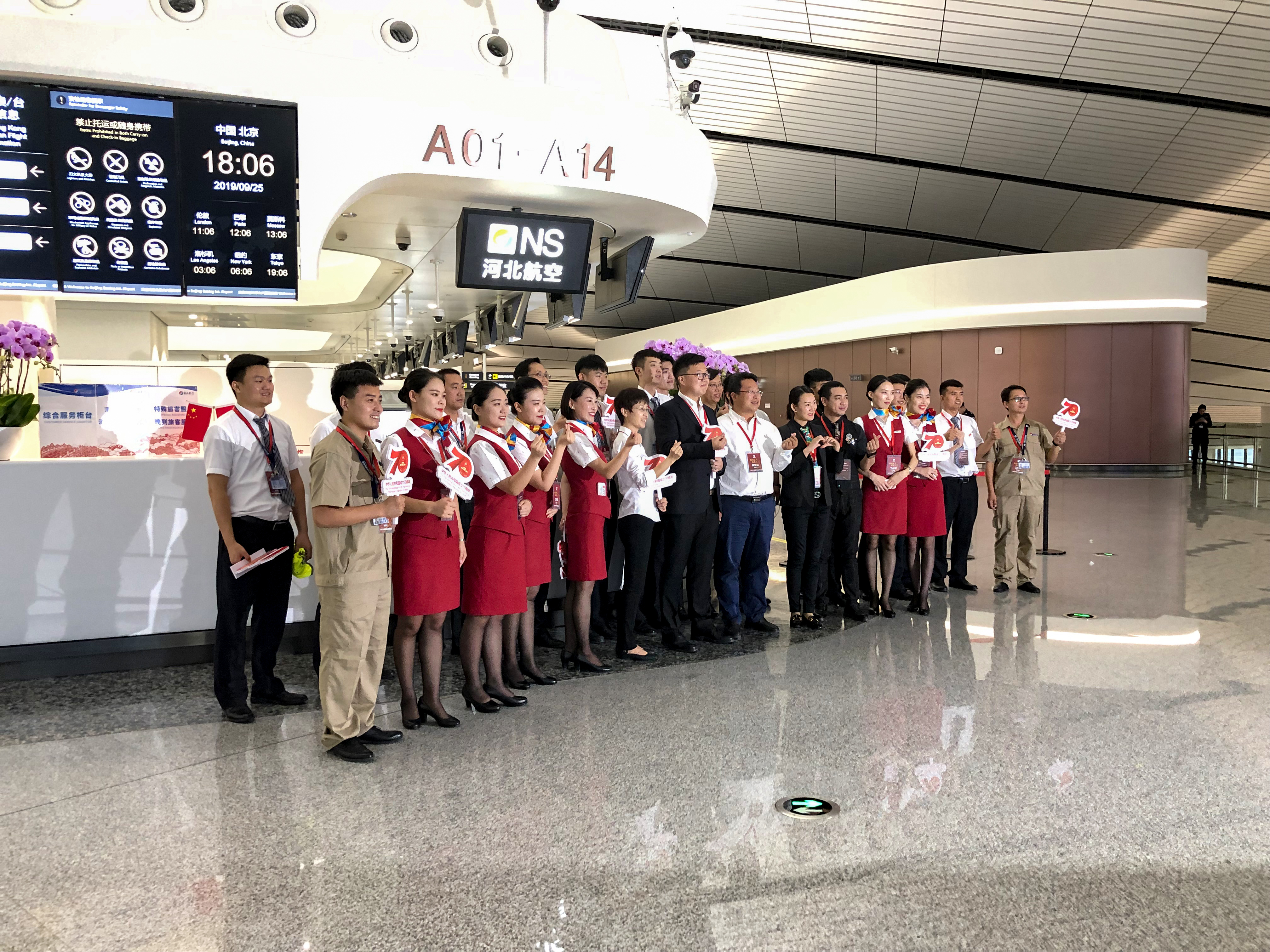 Check-in area A witnessed a celebration of Hebei Airlines which will use PKX from October 2019.